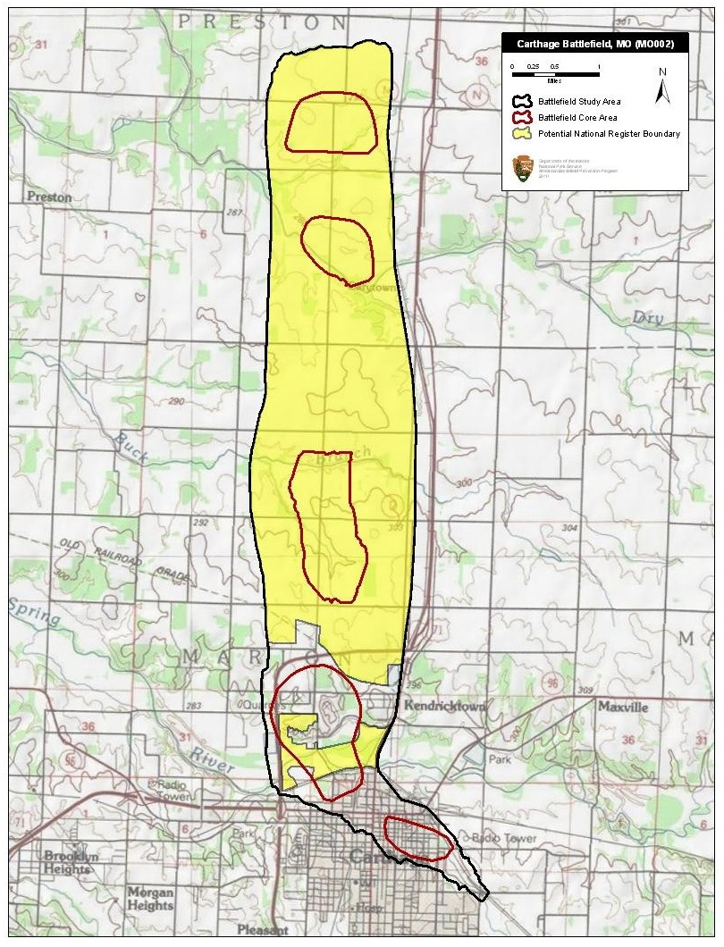 Map of battlefield core and study areas. The ABPP expanded the 1993 Study Area in the north to include the Confederate and Union lines above Double Trouble Creek. The Study Area boundary was also narrowed slightly to account for the fact that most of the action associated with this running engagement closely followed the roads. The 1993 Core Areas have been adjusted to reflect the ranges of artillery employed during this battle. In addition to the 1993 Core Areas, two new Core Areas were added. The first is located north of Double Trouble Creek and represents the battle’s opening artillery duel. The second was added at the southern end of the battlefield to account for fighting within Carthage and to the east of town.